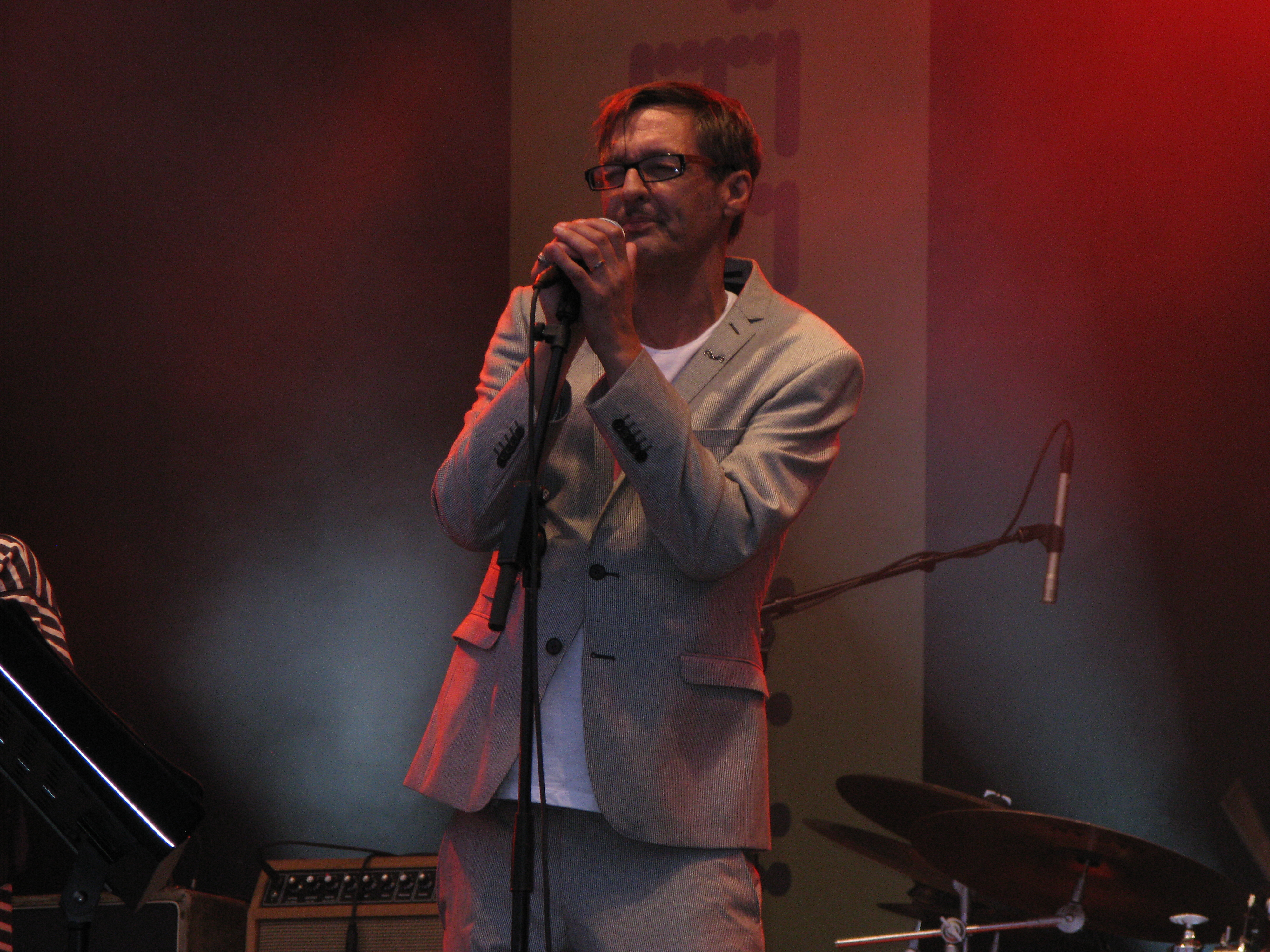 Olle Ljungström in the Swedish pop group Reeperbahn, playing at Forever Young concert in Varberg, Sweden, 2010